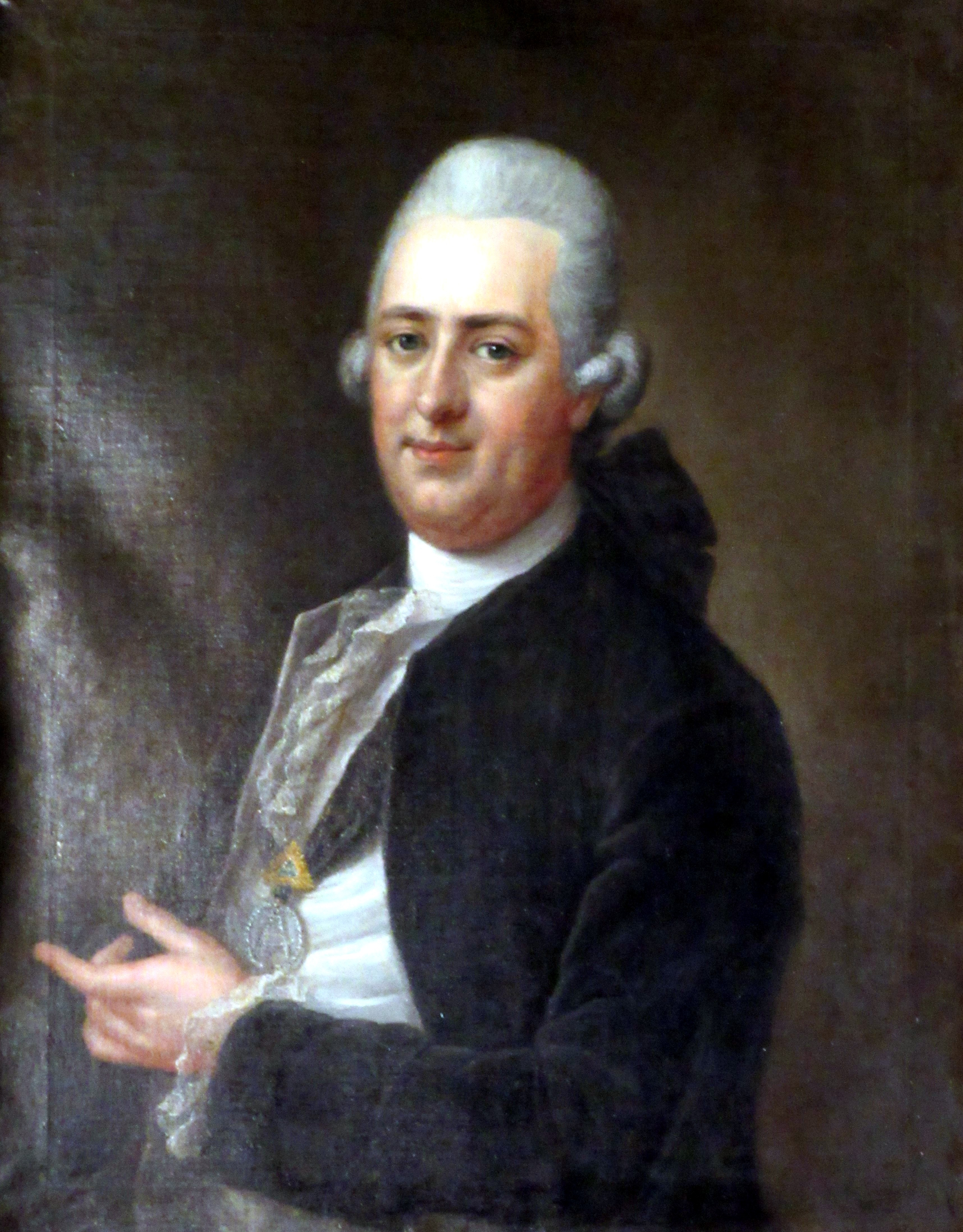 Matthias von der Hude: Senator Brockes (Christian von Brokes) Behnhaus Lübeck